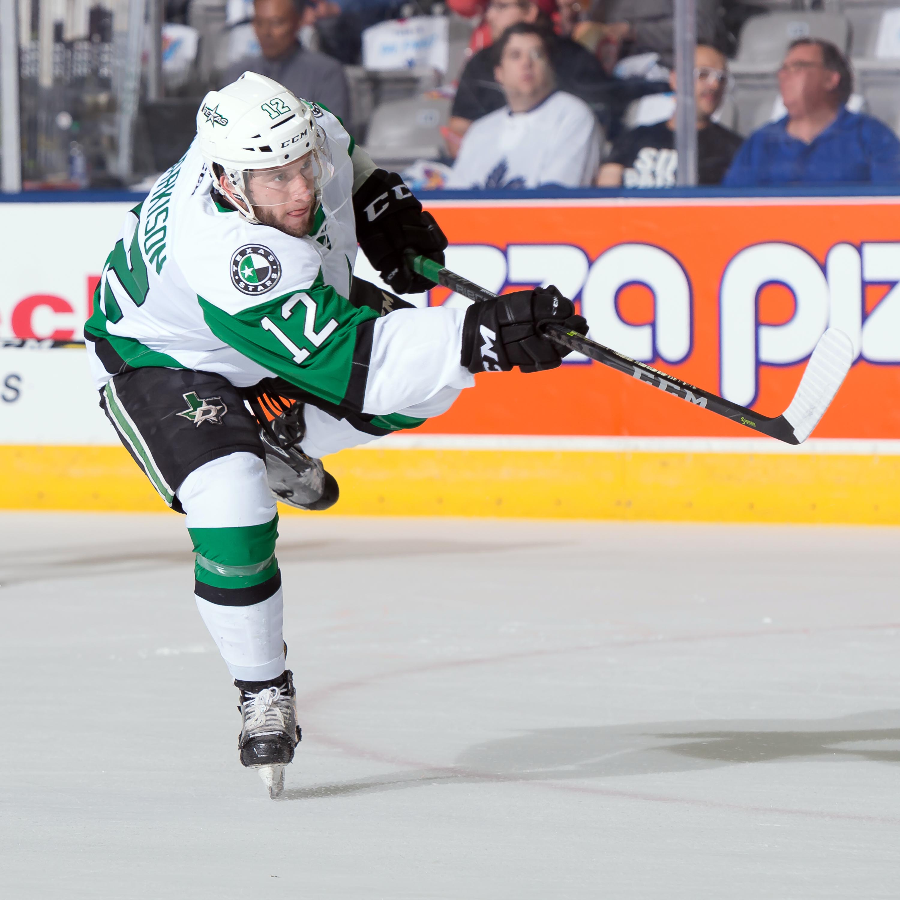 Photo: Christian Bonin